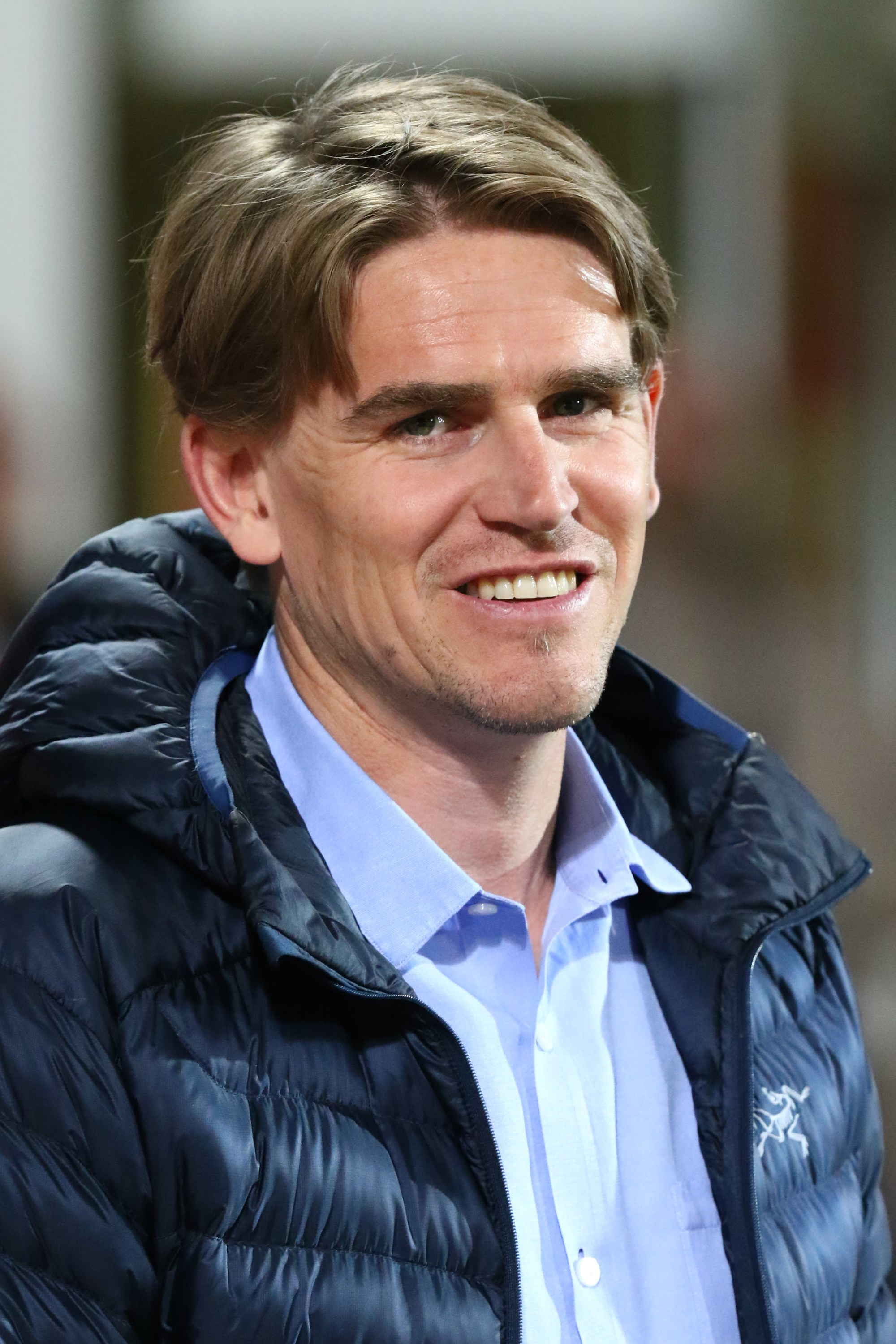 Championshipmatch of the Austrian Bundesliga 2017–18 FC Admira Wacker Mödling (red shirts) vs. FC Red Bull Salzburg (white shirts) 2-6 (1-3) at 2018-04-15 in the Bundesstadion Südstadt in Maria Enzersdorf. – The photo shows Christoph Freund (director of sports of FC Red Bull Salzburg).